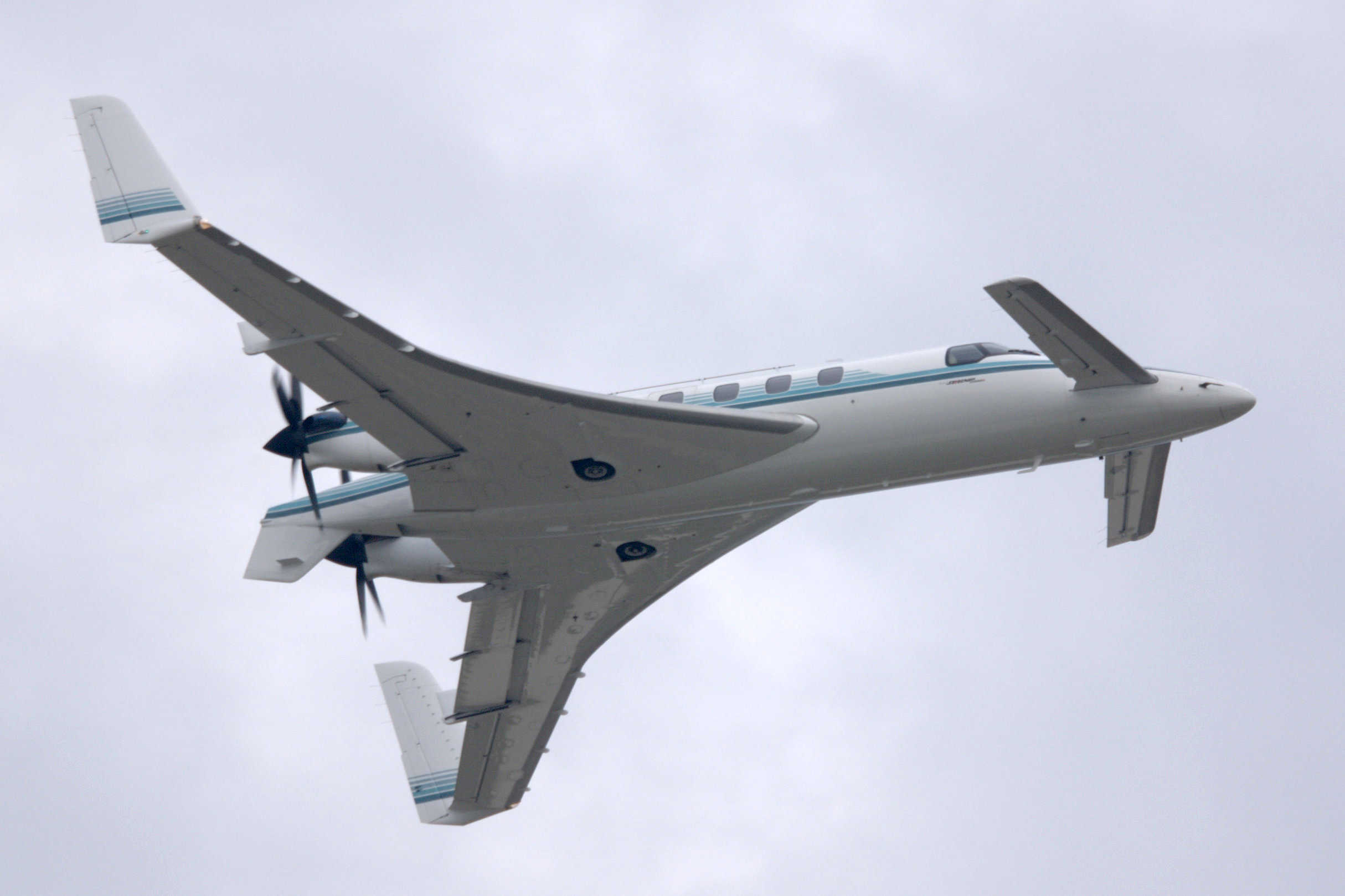 A Beech Starship in flight, photographed during the 2011 AirVenture airshow.